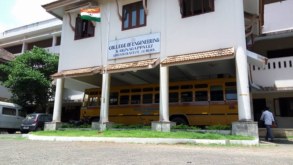 CEK Main block on independence day